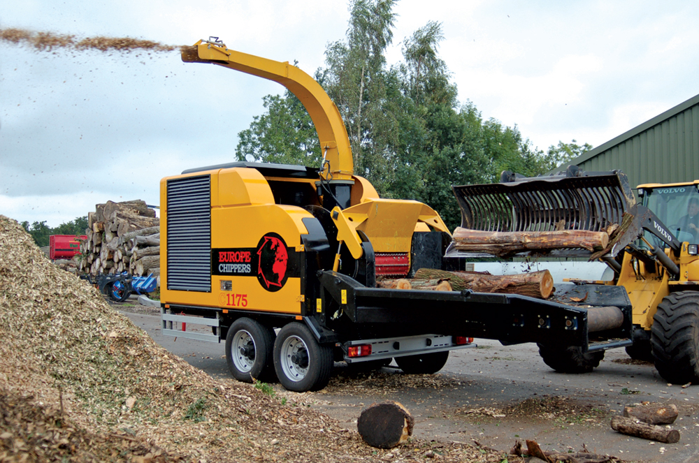 Europe Chippers Woodchipper